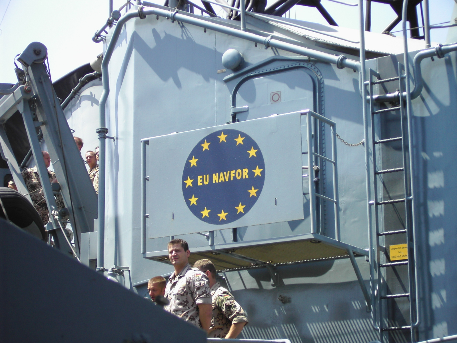 EU badge on German frigate - as part of operation Atalanta, Europe's first naval marine mission.